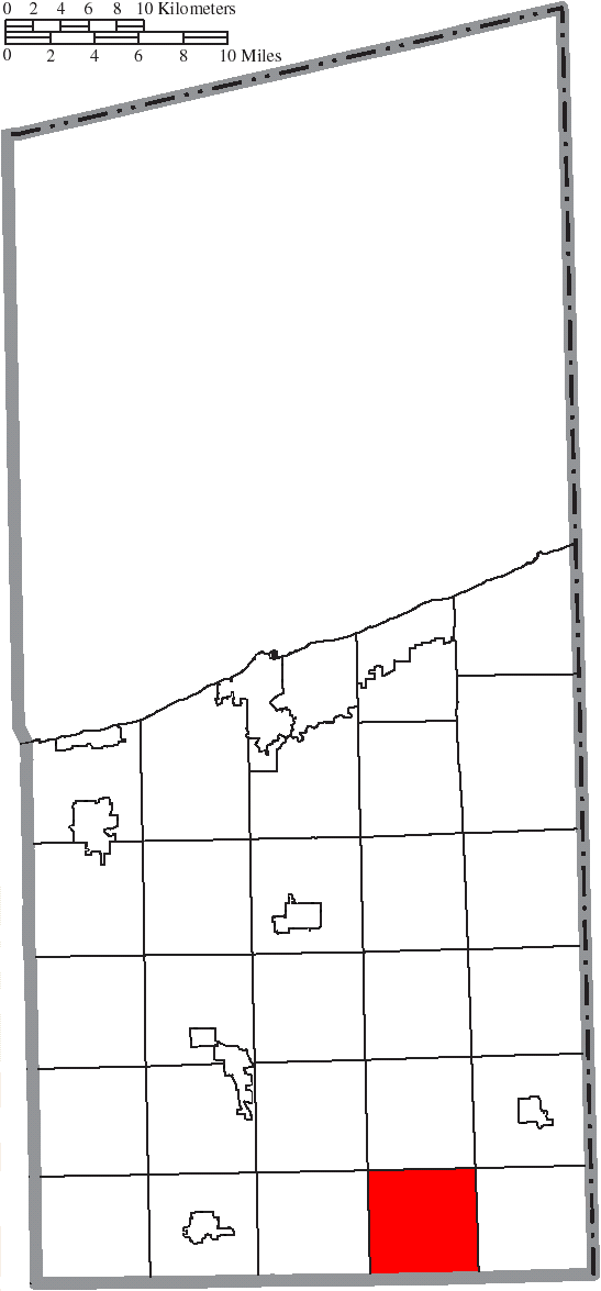 Map of the municipal and township boundaries of Ashtabula County, Ohio, United States, as of the 2000 census, with the location of Wayne Township highlighted. Township borders are shown only in unincorporated areas in order to differentiate incorporated and unincorporated areas more clearly.